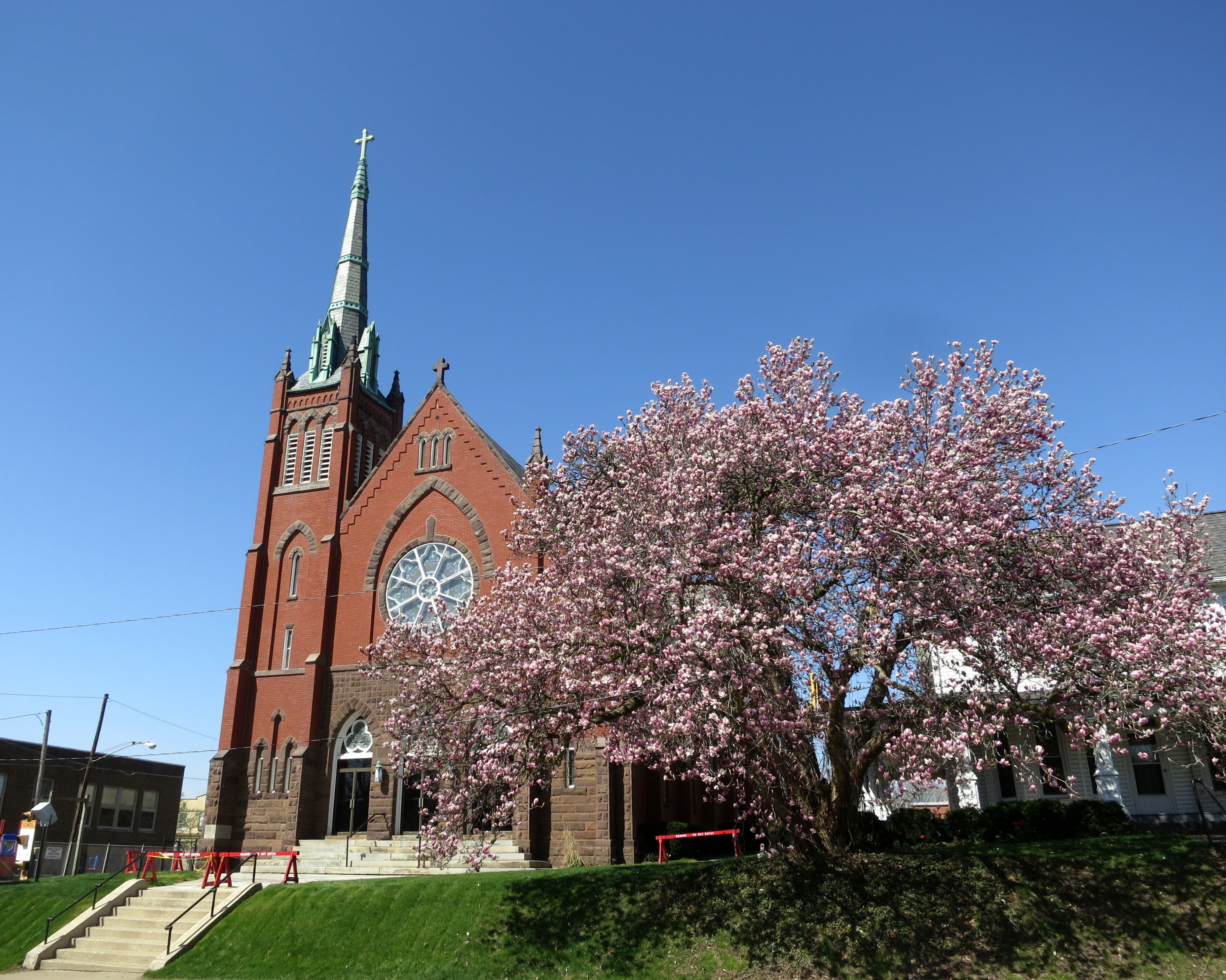 Saint Luke Catholic Church (Danville, Ohio) - exterior